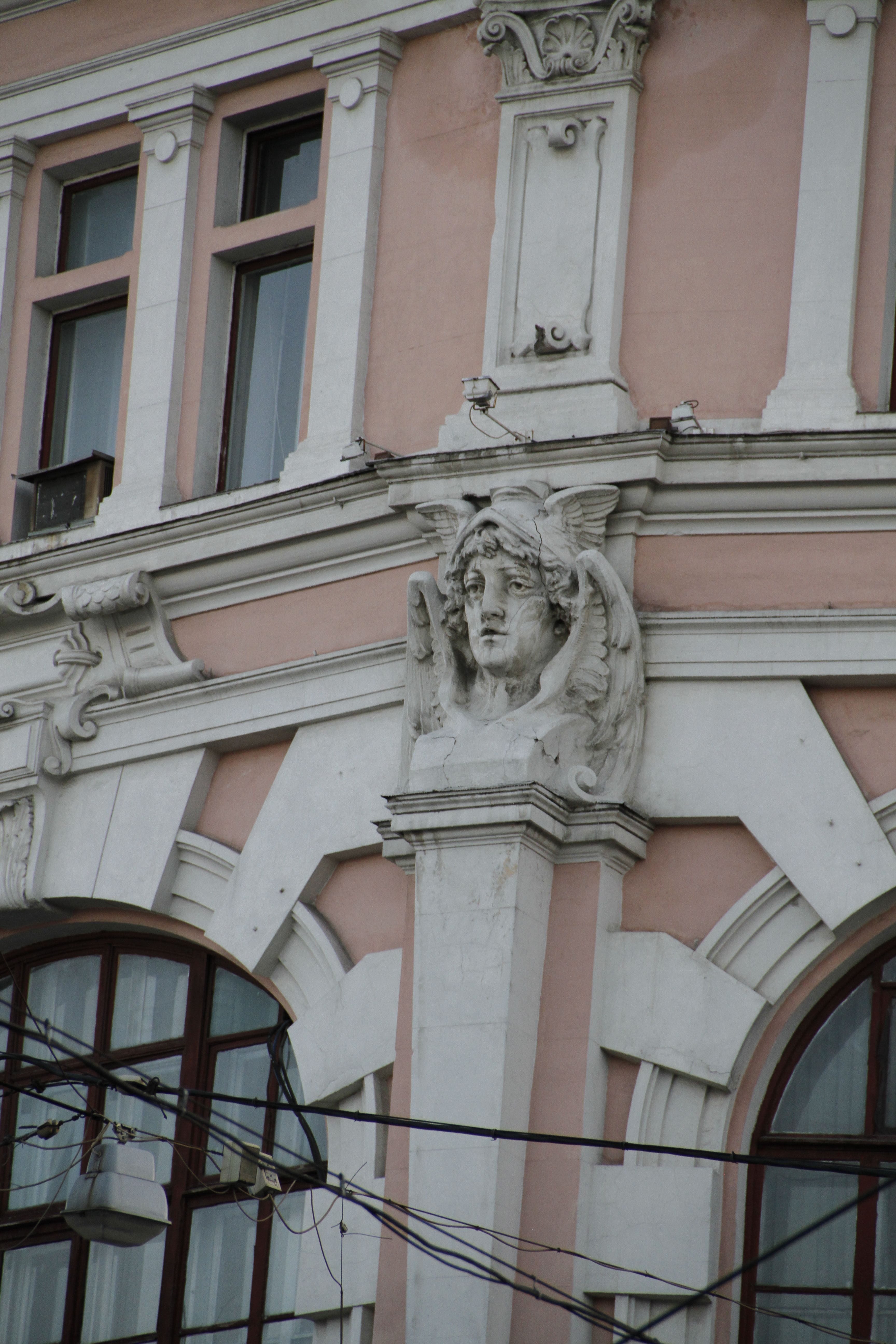 Moscow. The Trading House of M.S. Kuznetsov